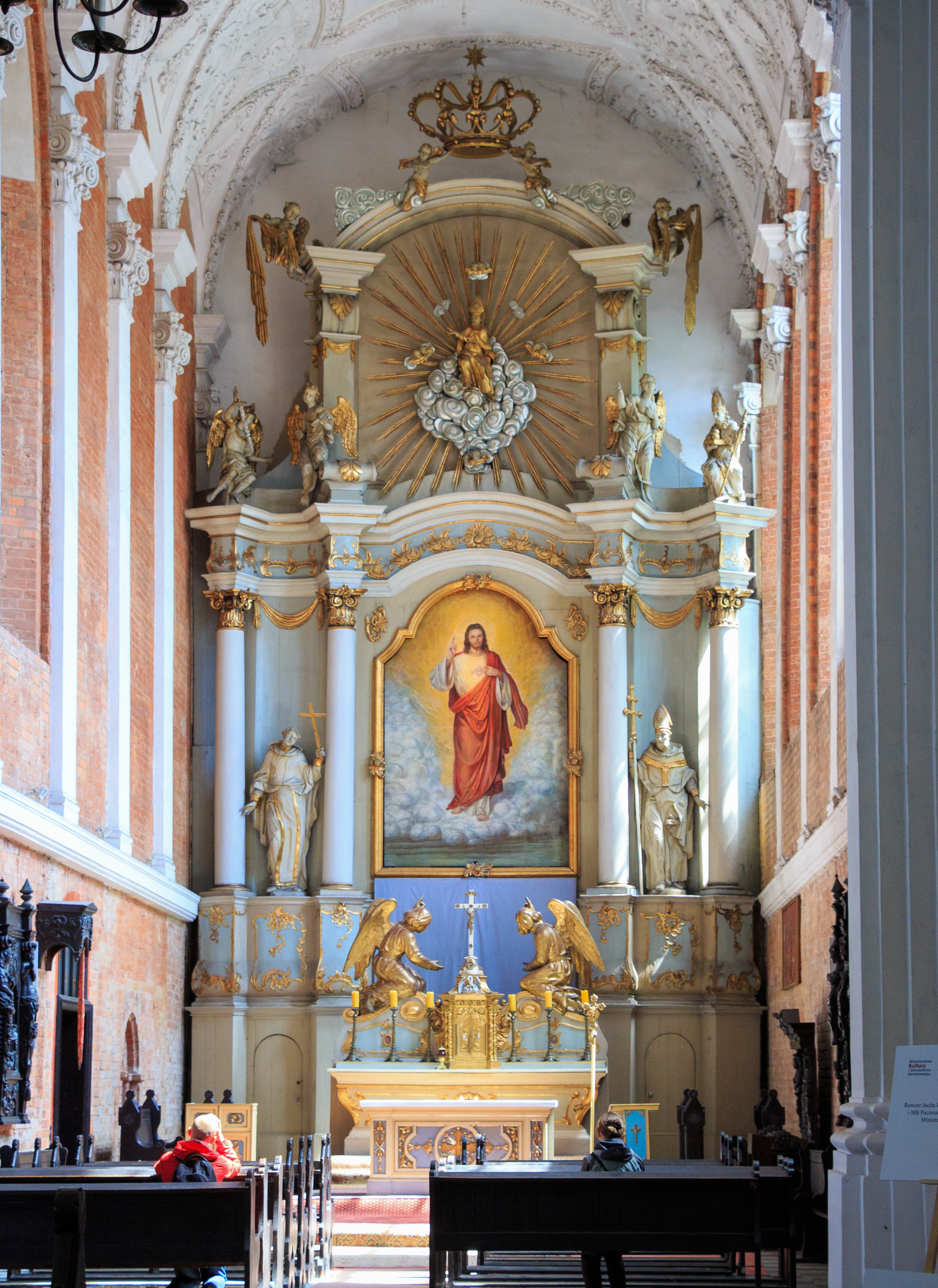 The chancel of the Sacred Heart of Jesus Church and Our Lady of Consolation church in Poznań, Poland